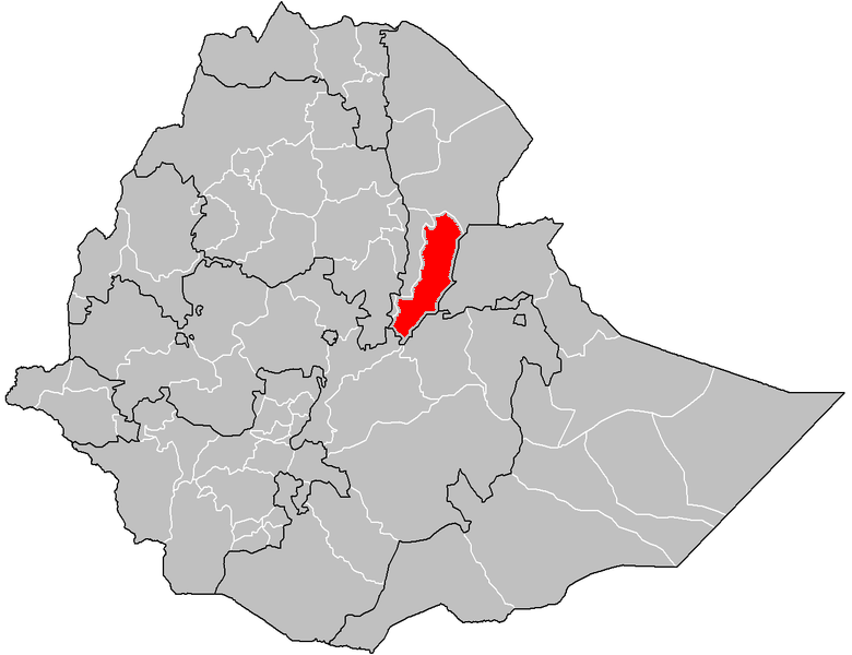 Ethiopia zones map with Afar Zone 3 enlighted.